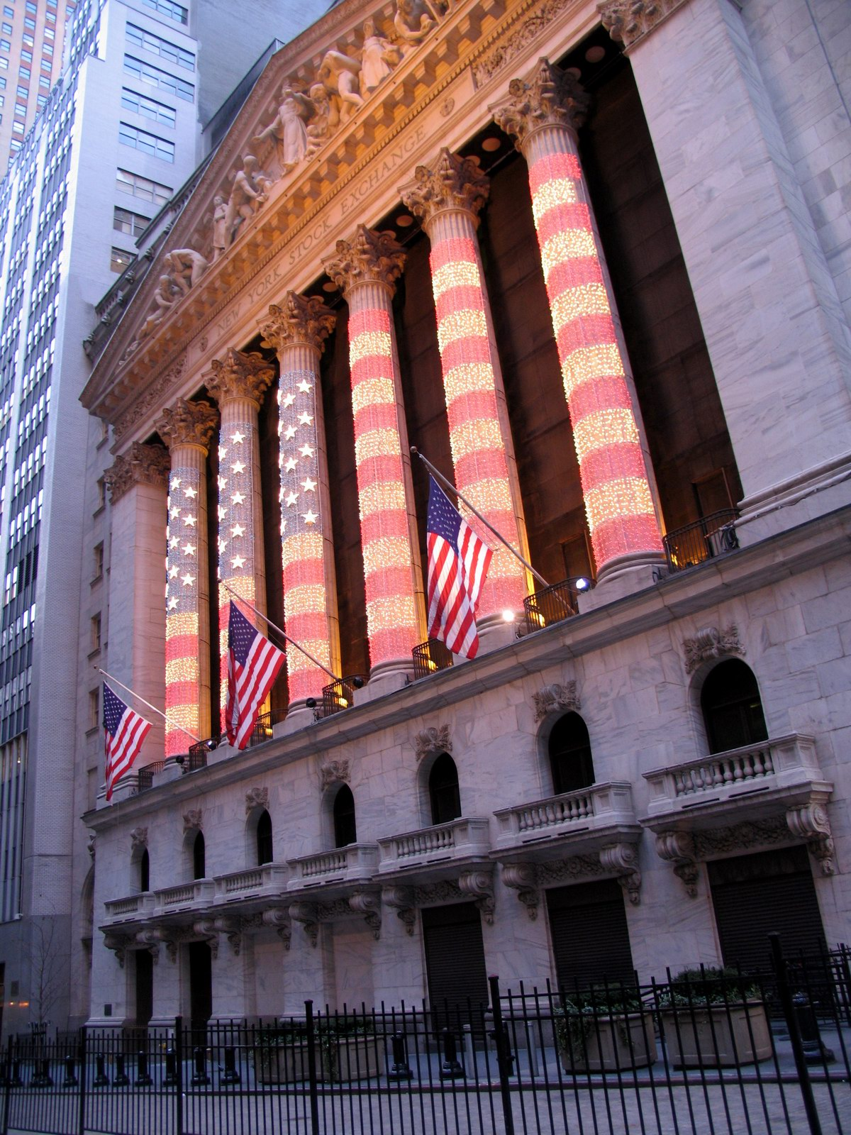 The New York Stock Exchange